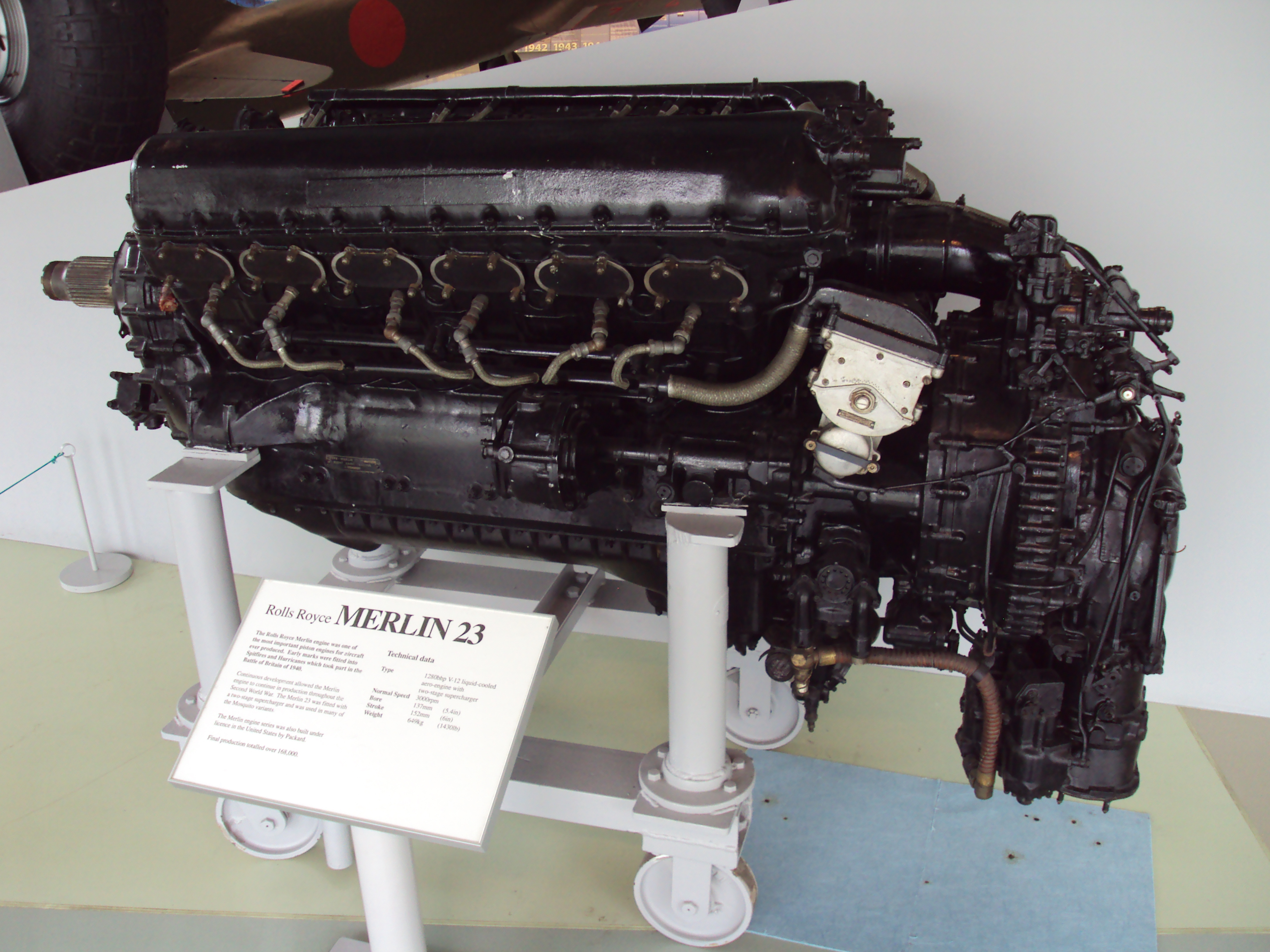 Rolls-Royce Merlin engine at the RAF Museum, Colindale, London.